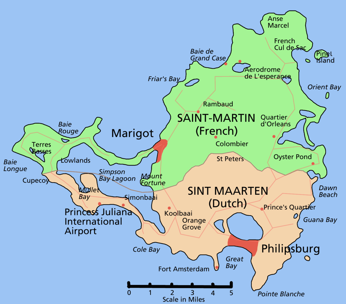 Saint Martin Map. A correction made to the original map for Pinel Island from Pinet Island (incorrect)